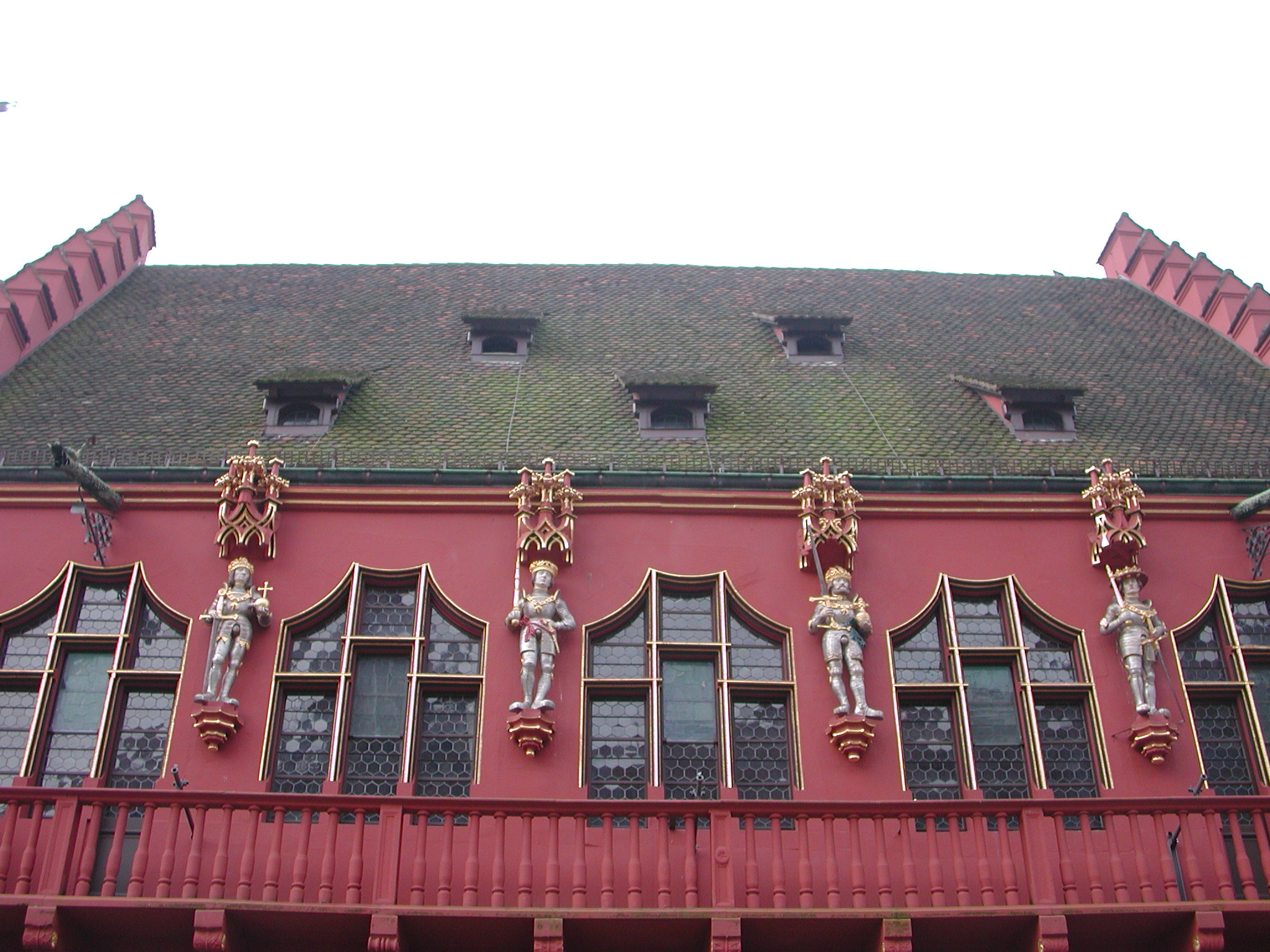 The Historic Merchants Hall in Freiburg dates to 1520-21. The front facade is decorated with statues and coats of arms that were sculpted between 1520 and 1531 by Sixt von Staufen. The sculpted figures under baldachins show Emperor Maximilian I, King Philipp the Beautiful of Castile, Emperor Charles V and Emperor Ferdinand I -- all Hapsburgs.